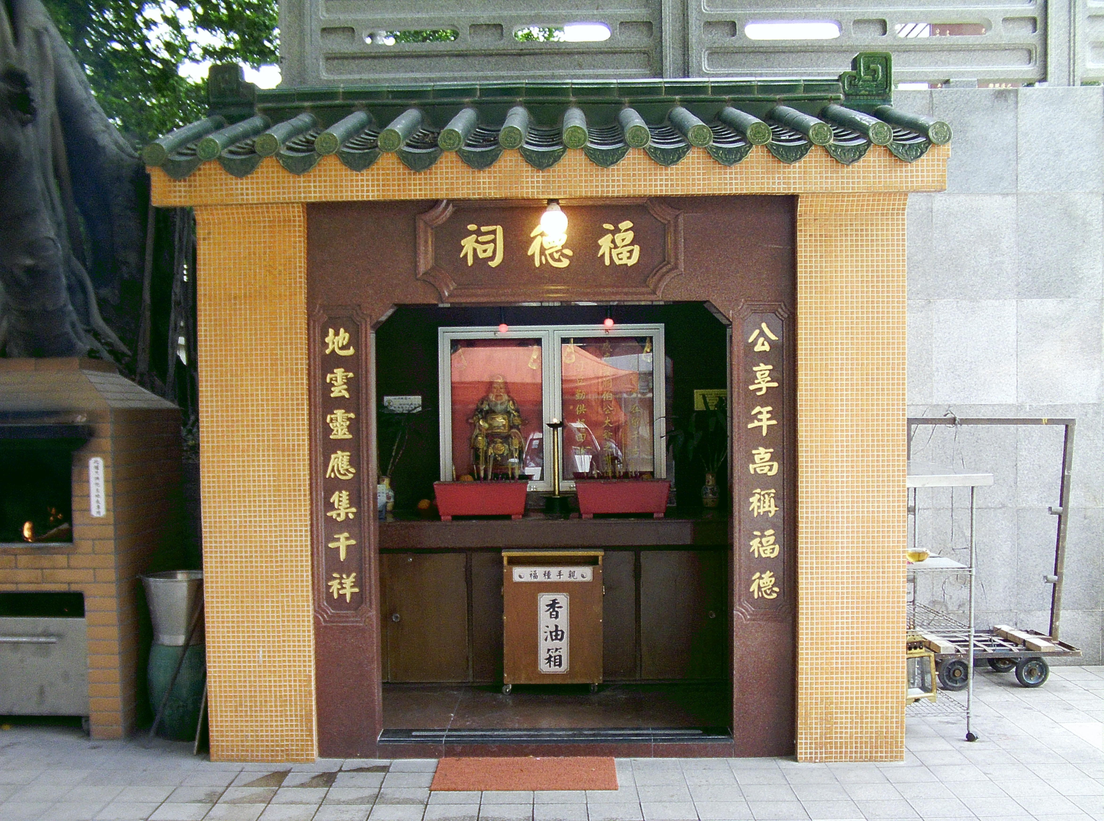 Earth_Altar_of_Tuen_Mun_Sin_Hing_Tung 中文（香港）: 香港新界屯門善慶洞福德祠